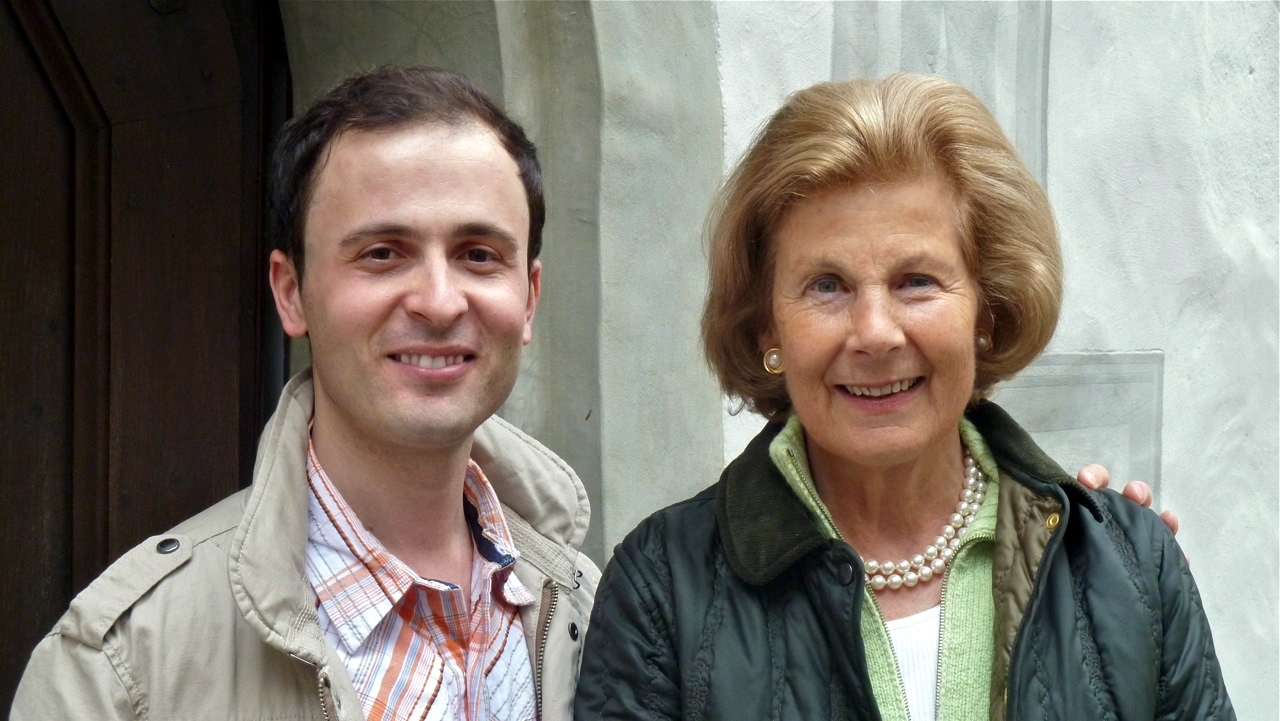 Ihrer Durchlaucht der Frau Fürstin Marie mit Giorgi Latso (Latsabidze)